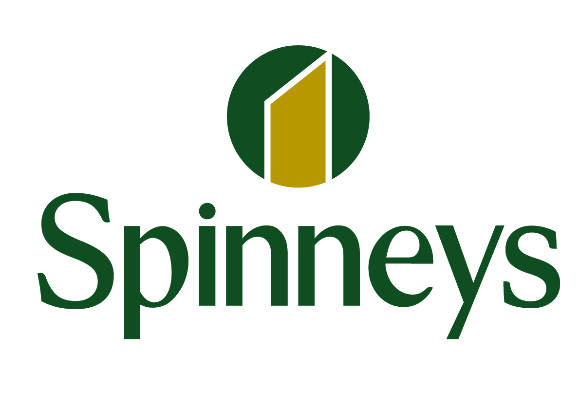 Current Spinneys Logo